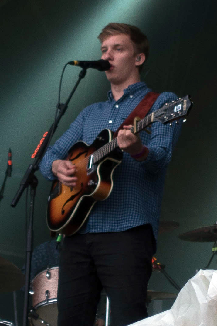 George Ezra supporting Robert Plant at Glastonbury Abbey